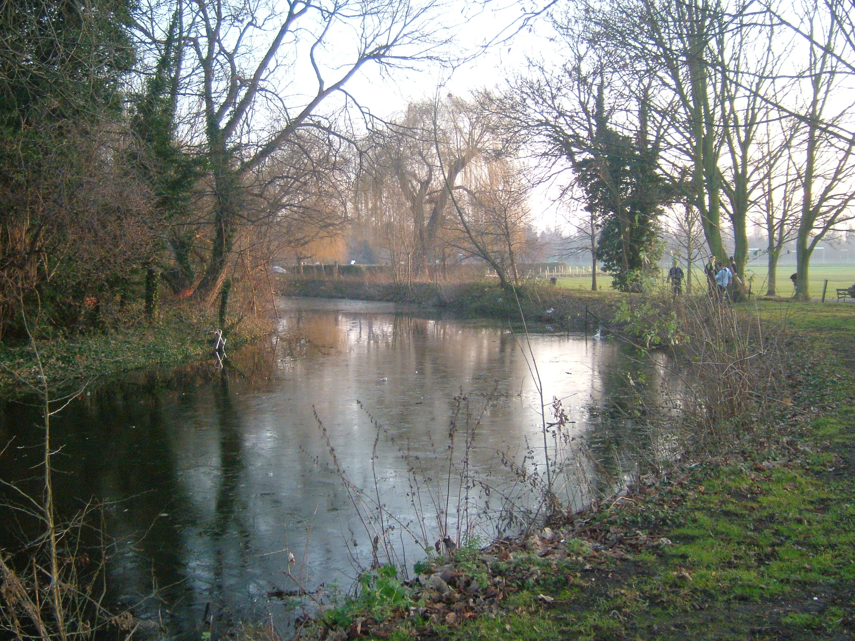 Dartford is a town in North Kent, England. River Darent, in Central Park